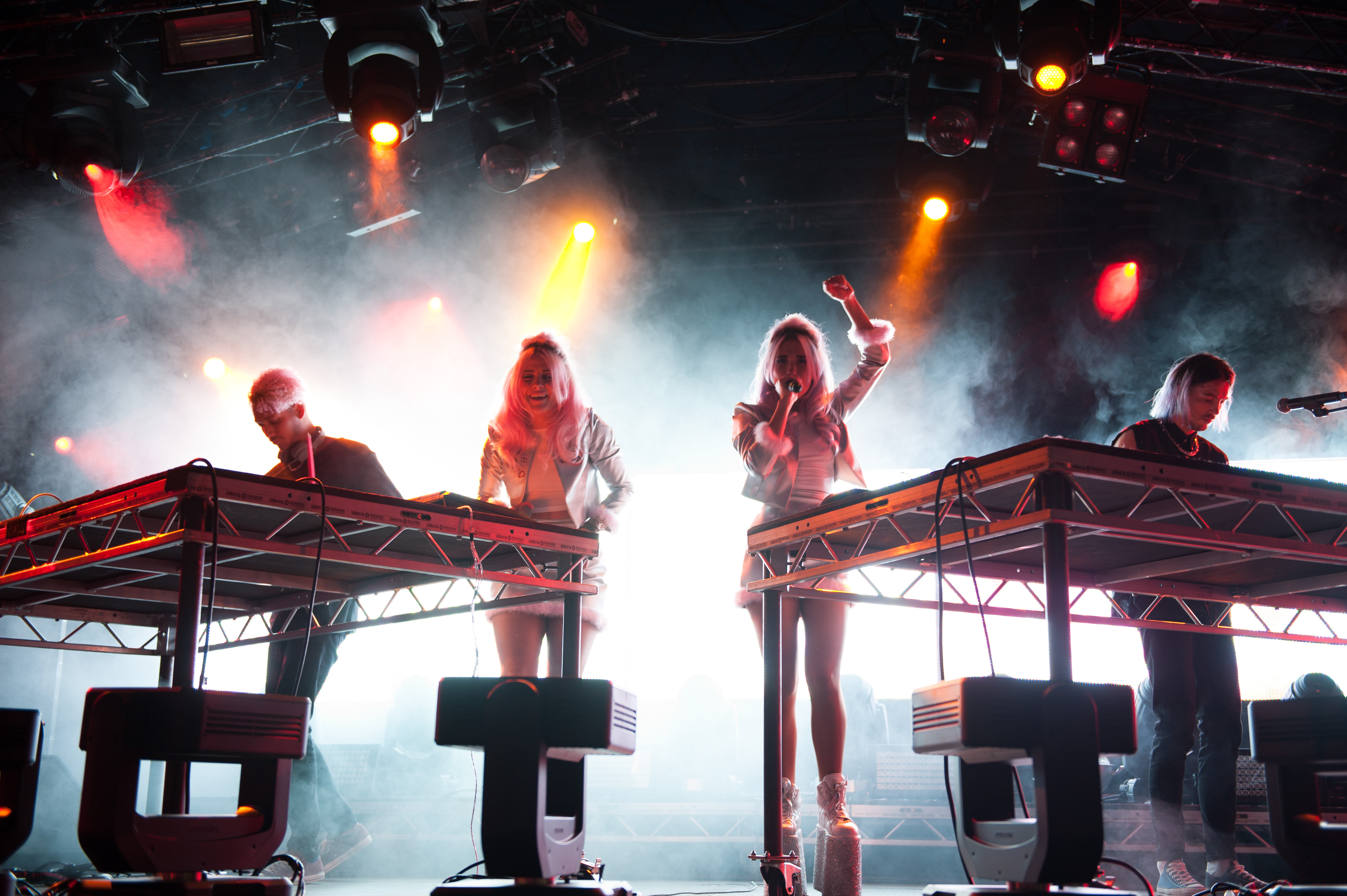 Rebecca & Fiona at Way Out West festival, Gothenburg, Sweden, 2014